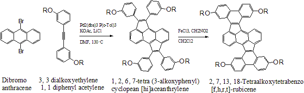 cyclopentannulation